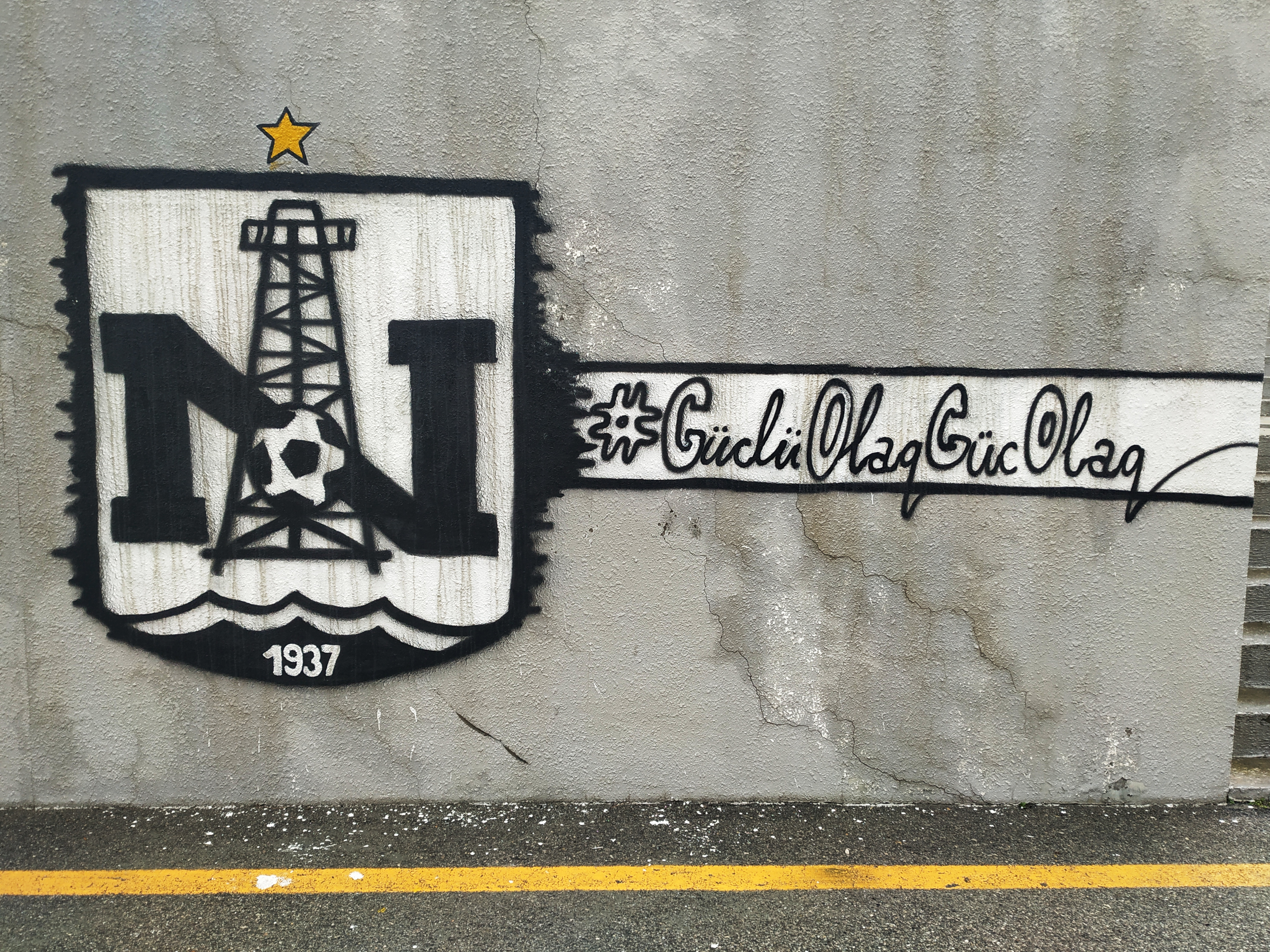 Graffiti of the Neftçi PFK logo at Bakcell Arena.